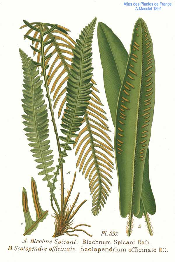 Blechnum spicant Roth. Scolopendrium officinale DC.